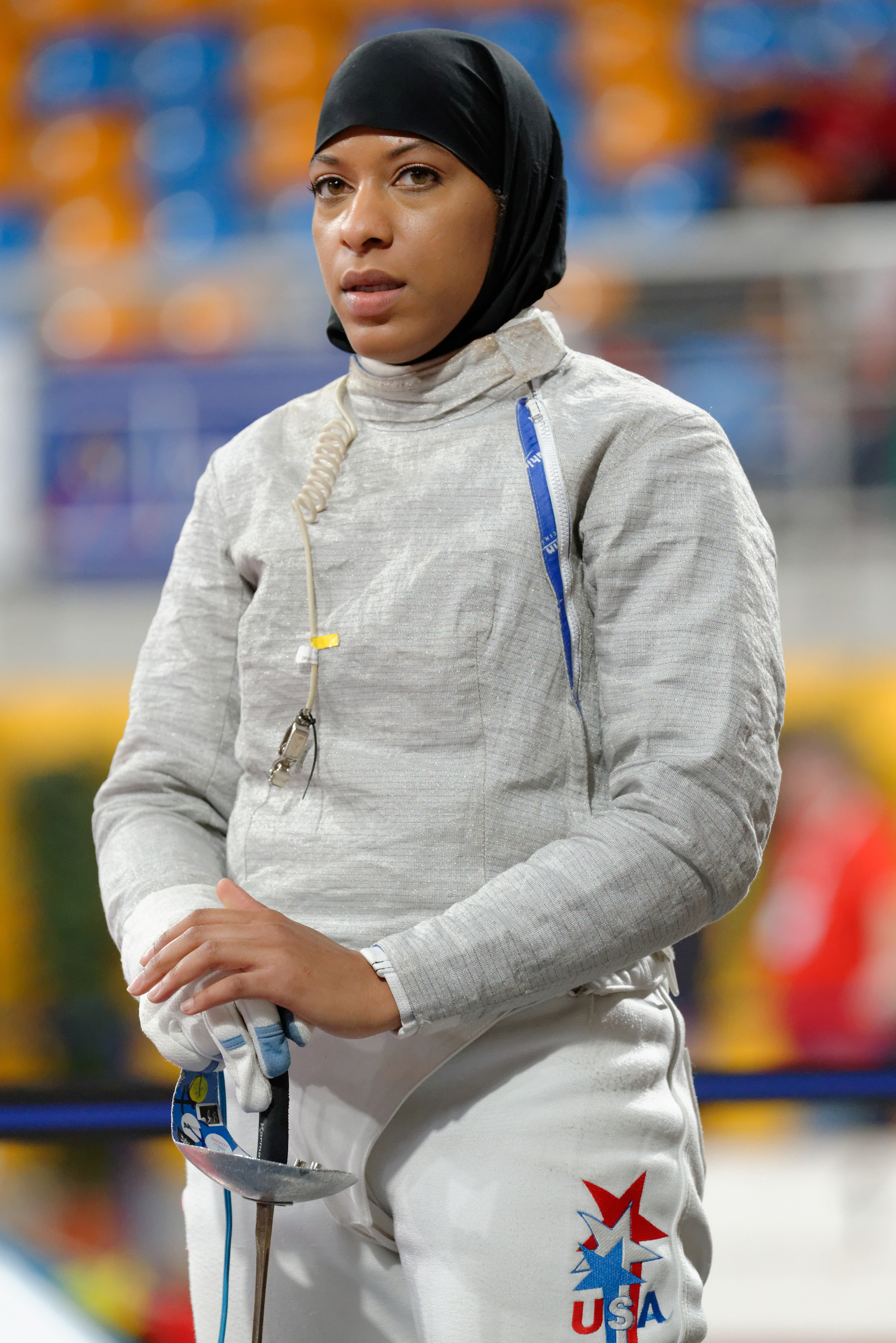 Ibtihaj Muhammad of the United States in the team event of the 2014–15 Orléans World Cup in women's sabre.